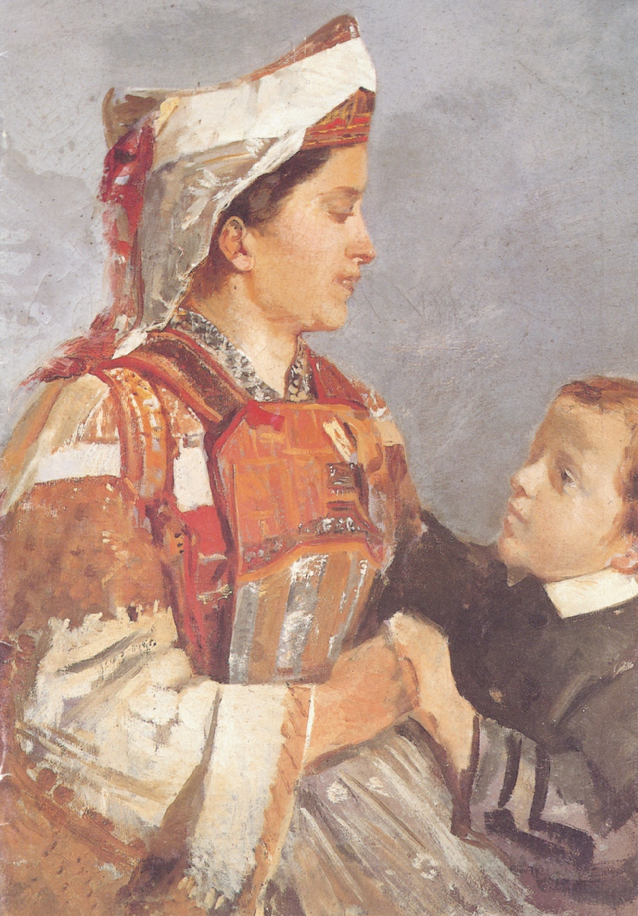 Wife In Albanian Costume By Andrea Cefaly